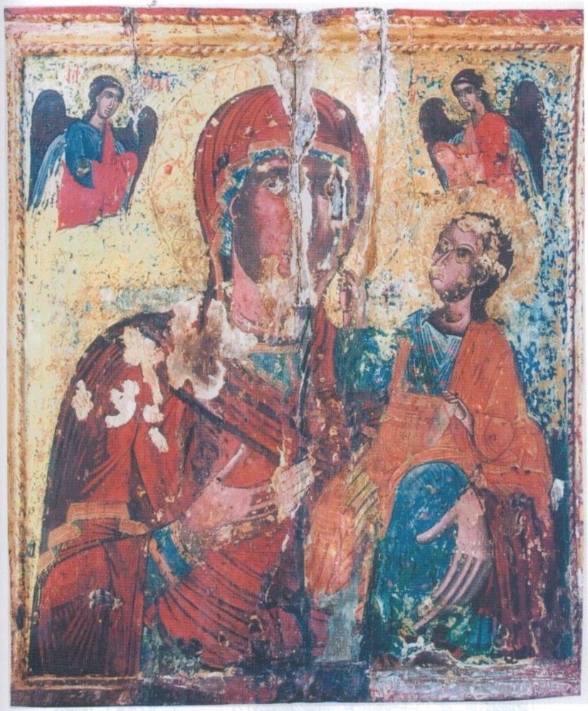 Saint Mary with Christ Icon from Malovishta, Beginning of 17th Century